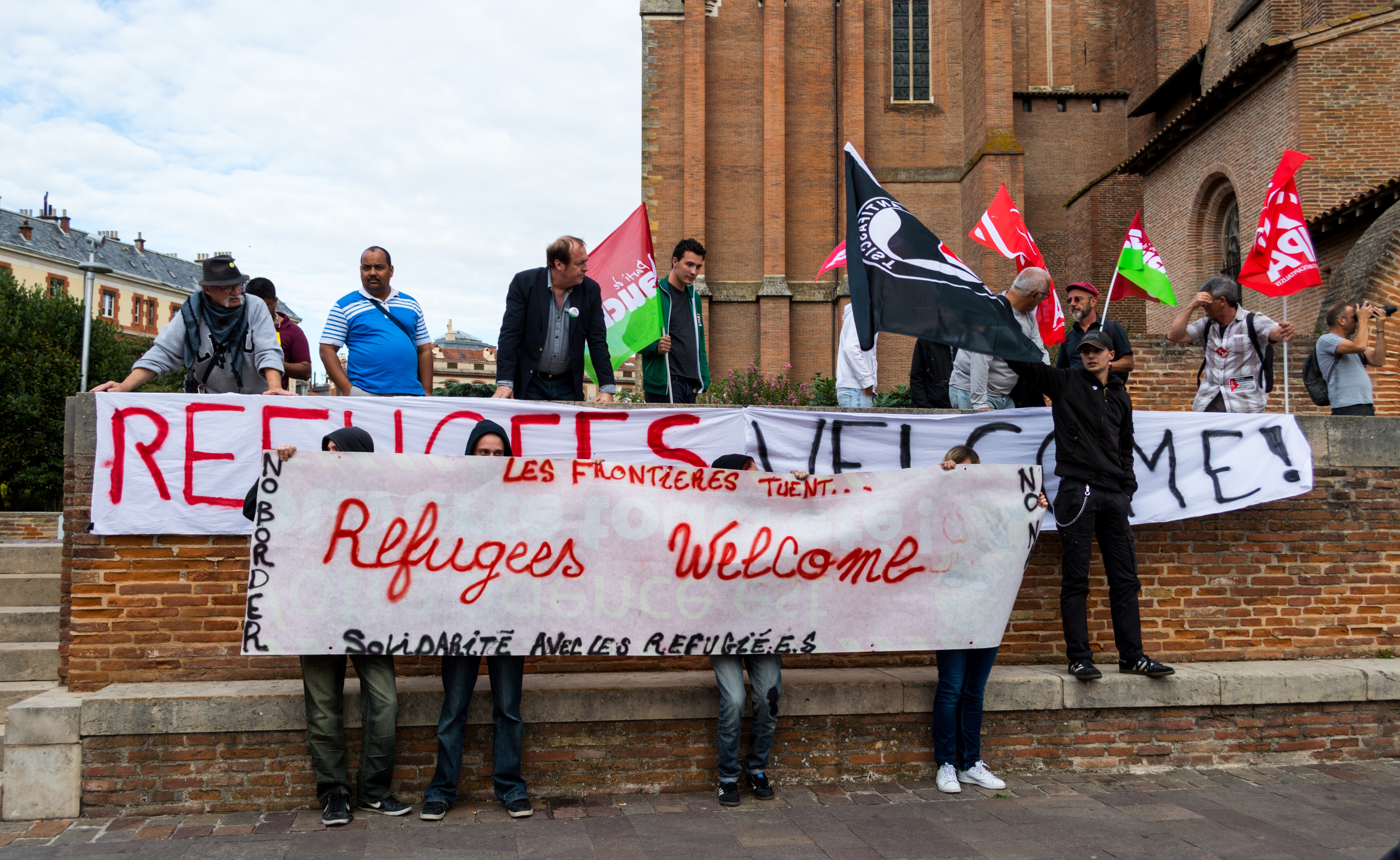 Rally to call for more help for refugees, in Toulouse.